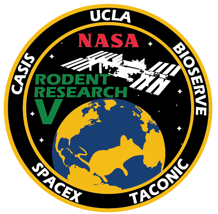 This is the NASA mission patch for the Rodent Research-5 Experiment.